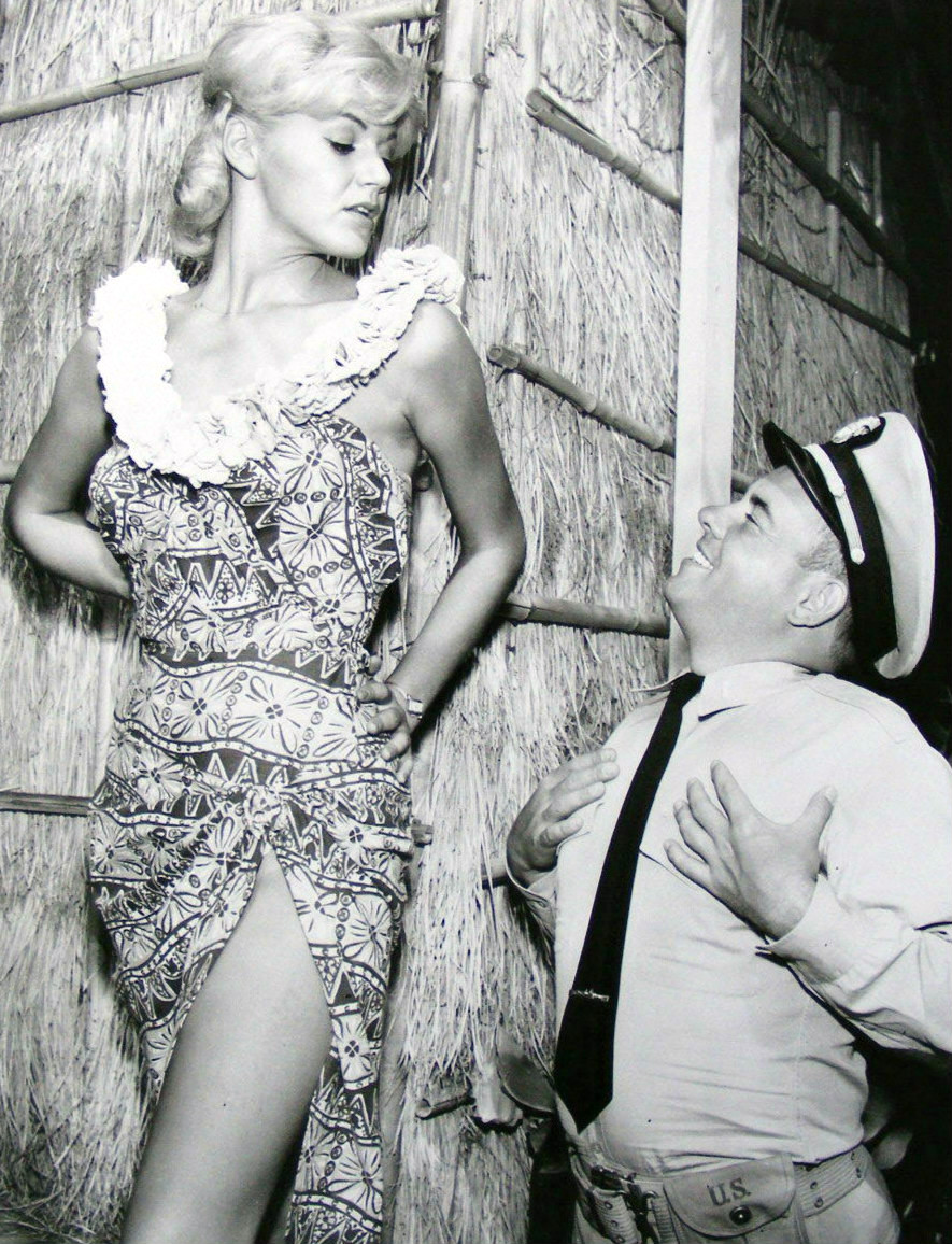 Publicity photo from the television program McHale's Navy. Pictured are Rochelle Rac and Tim Conway as Ensign Parker at "McHale's Paradise Hotel".